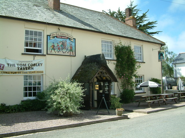 Tom Cobley Tavern, Spreyton, Devon This inn dates from 1589, and it was from this village in 1802 that the famous Uncle Tom Cobley and his companions set forth for Widecombe Fair. Up the road in the churchyard, a gravestone records a Thomas Cobley 1762-1844. This pub was awarded the Exeter and East Devon Camra Pub of the Year in 2006. It had 14 real ales on tap when I visited, and having sampled quite a few, I can say that they were kept in peak condition.